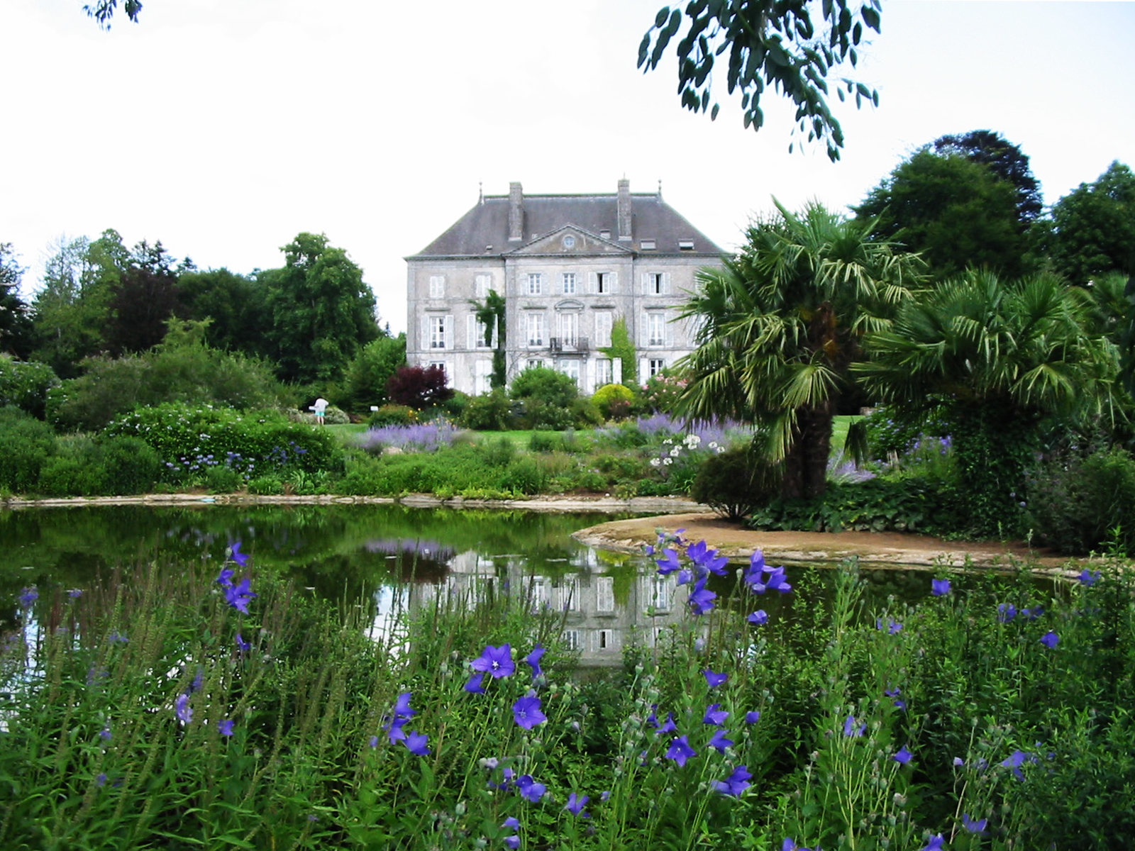 Château de la Foltière (France, Brittany)